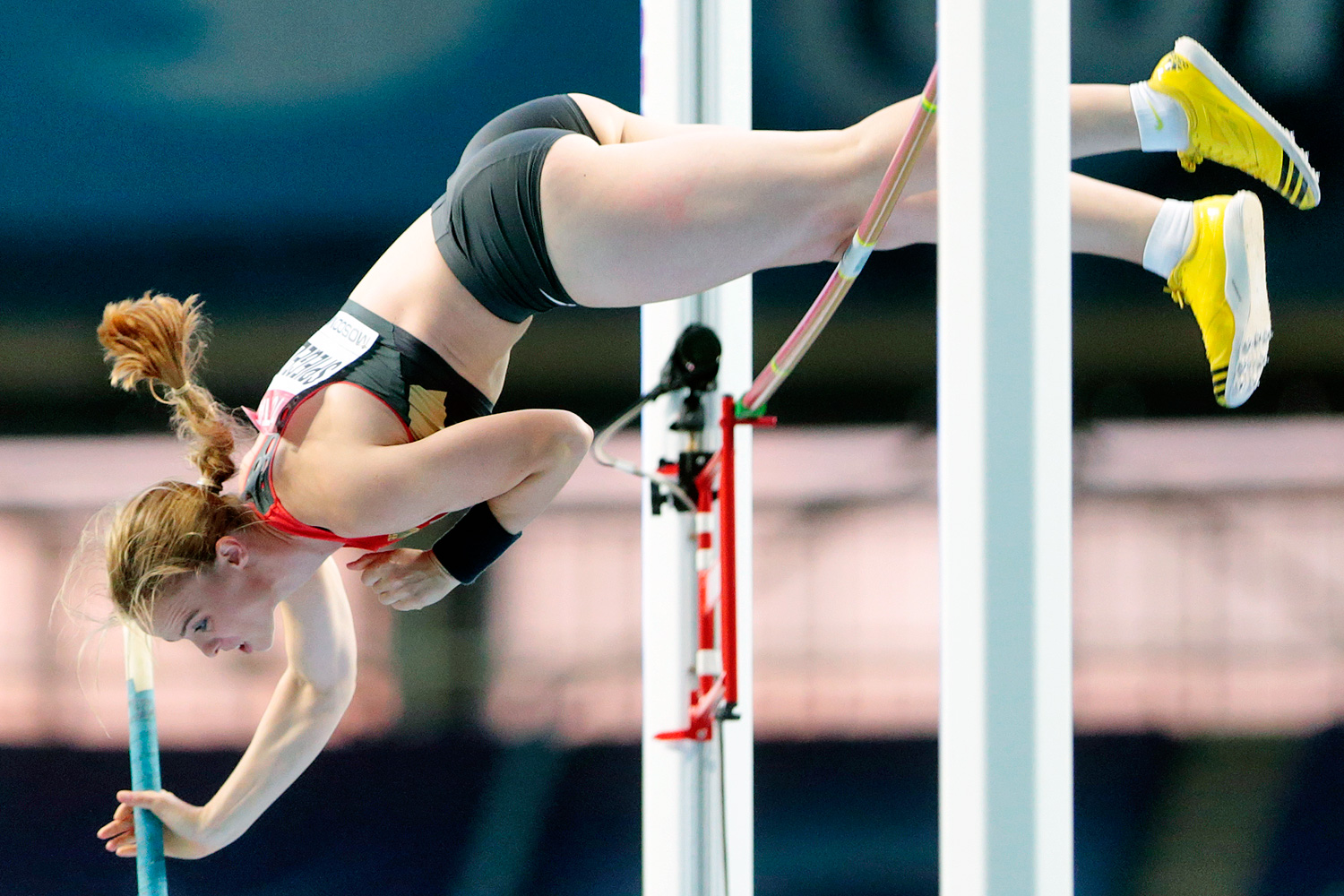 Silke Spiegelburg on 14th IAAF World Championships in Athletics